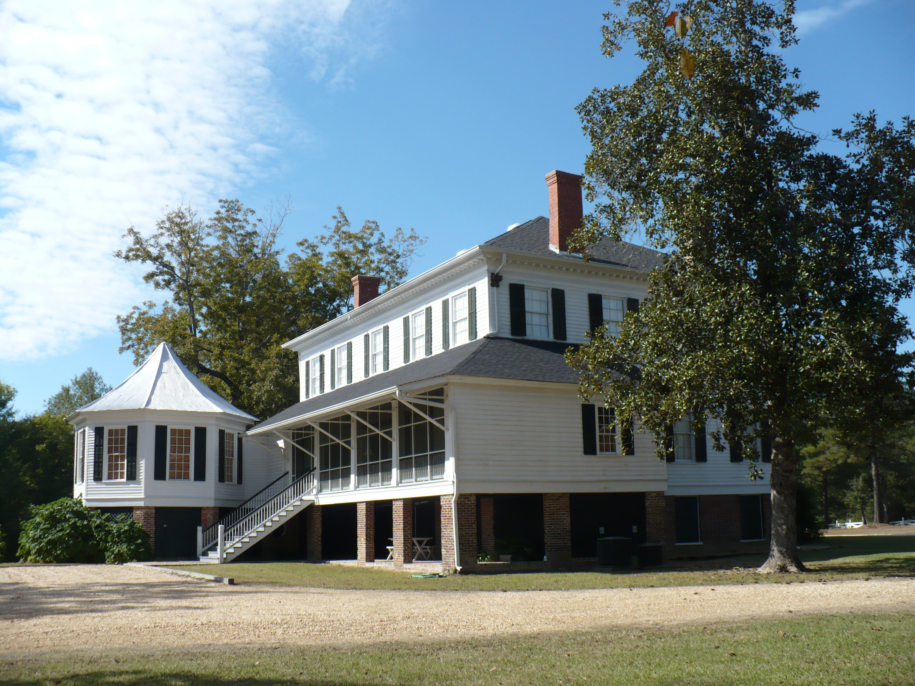 Youpon Plantation, also known as the Mathews-Tait House, near Camden, Wilcox County, Alabama. Established in 1840.